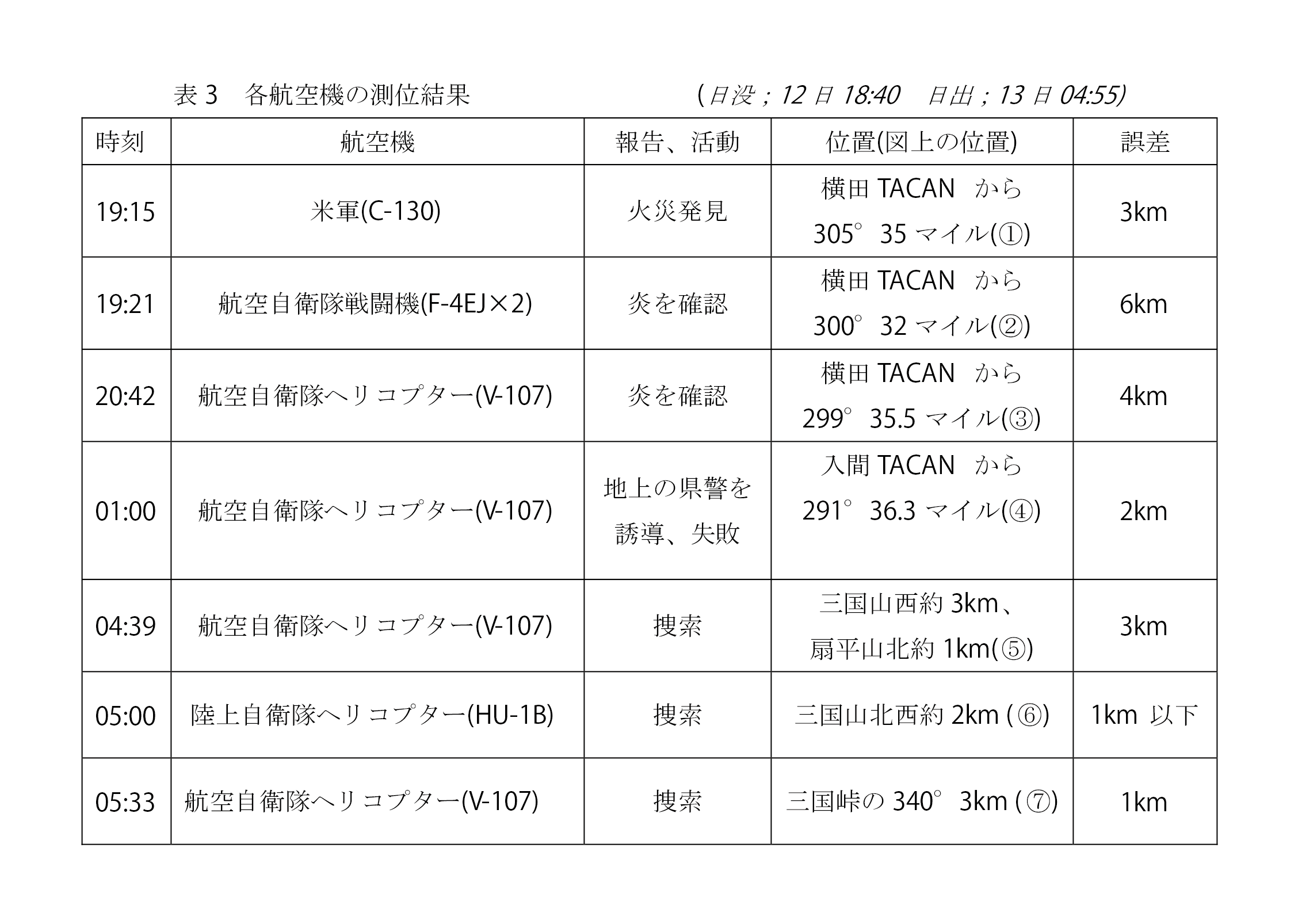 Japan Airlines 123 Explanation of investigation report